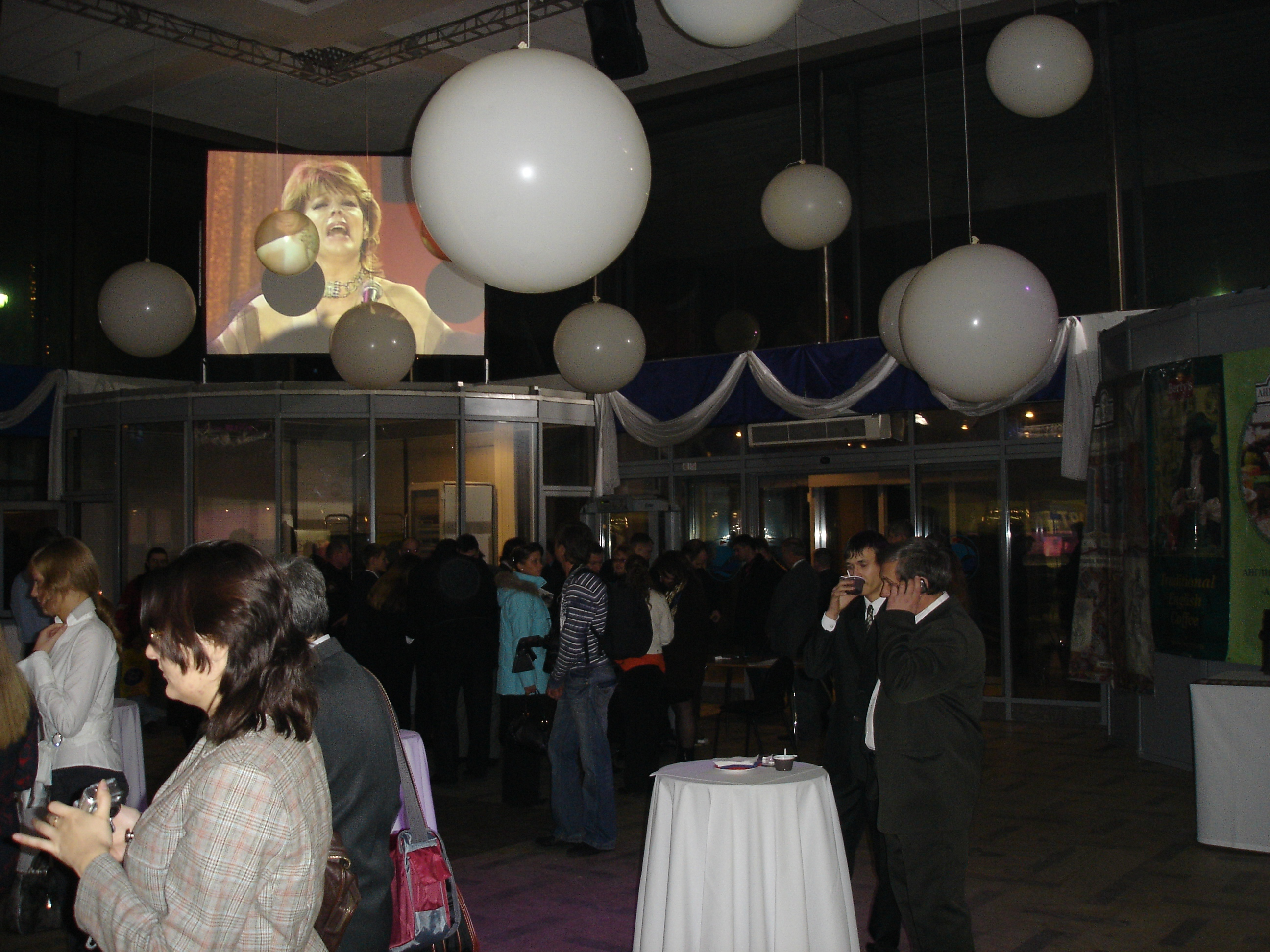 Russian Wikipedia - Runet-2006 prize winner. Cocktail party prior to the ceremony.